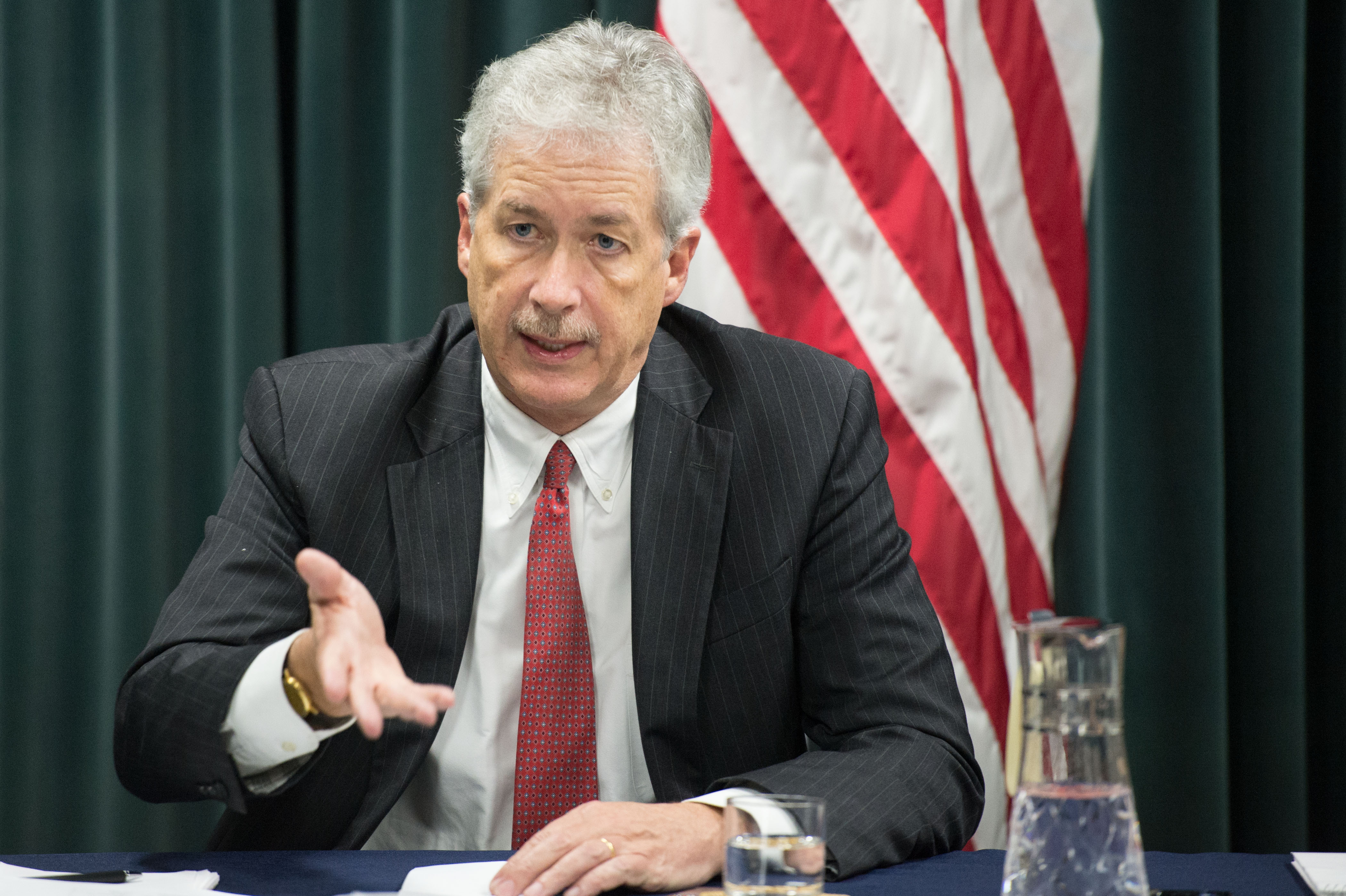 TOKYO, Japan (January 24, 2014) U.S. Deputy Secretary of State William J. Burns addresses the media during a roundtable discussion. [State Department photo by William Ng/Public Domain]